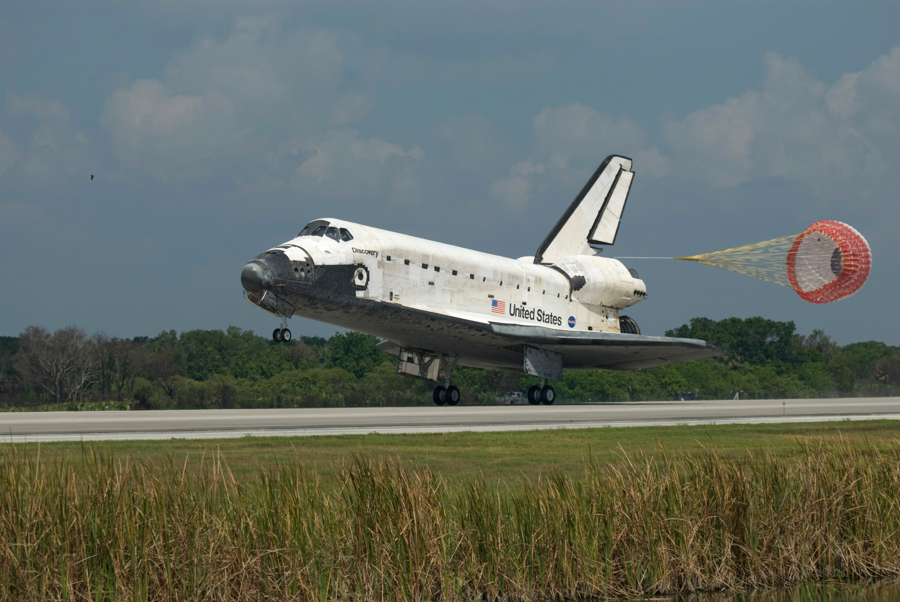 CAPE CANAVERAL, Fla. – In the 69th landing at NASA's Kennedy Space Center, a drag chute slows space shuttle Discovery's landing on Runway 15 to end the STS-124 mission, a 14-day flight to the International Space Station. The main landing gear touched down at 11:15:19 a.m. EDT. The nose landing gear touched down at 11:15:30 a.m. and wheel stop was at 11:16:19 a.m. The mission completed 5.7 million miles. The STS-124 mission delivered the Japan Aerospace Exploration Agency's large Japanese Pressurized Module and its remote manipulator system to the space station.